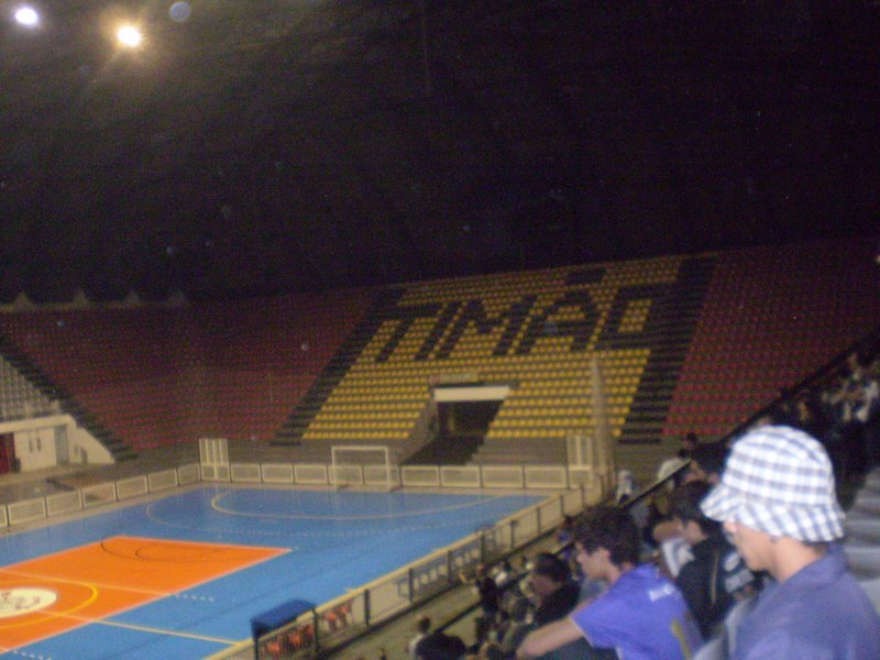 Ginásio do Sport Club Corinthians Paulista